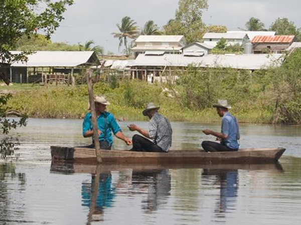 Three Russian Mennonites men fishing on New River, Belize